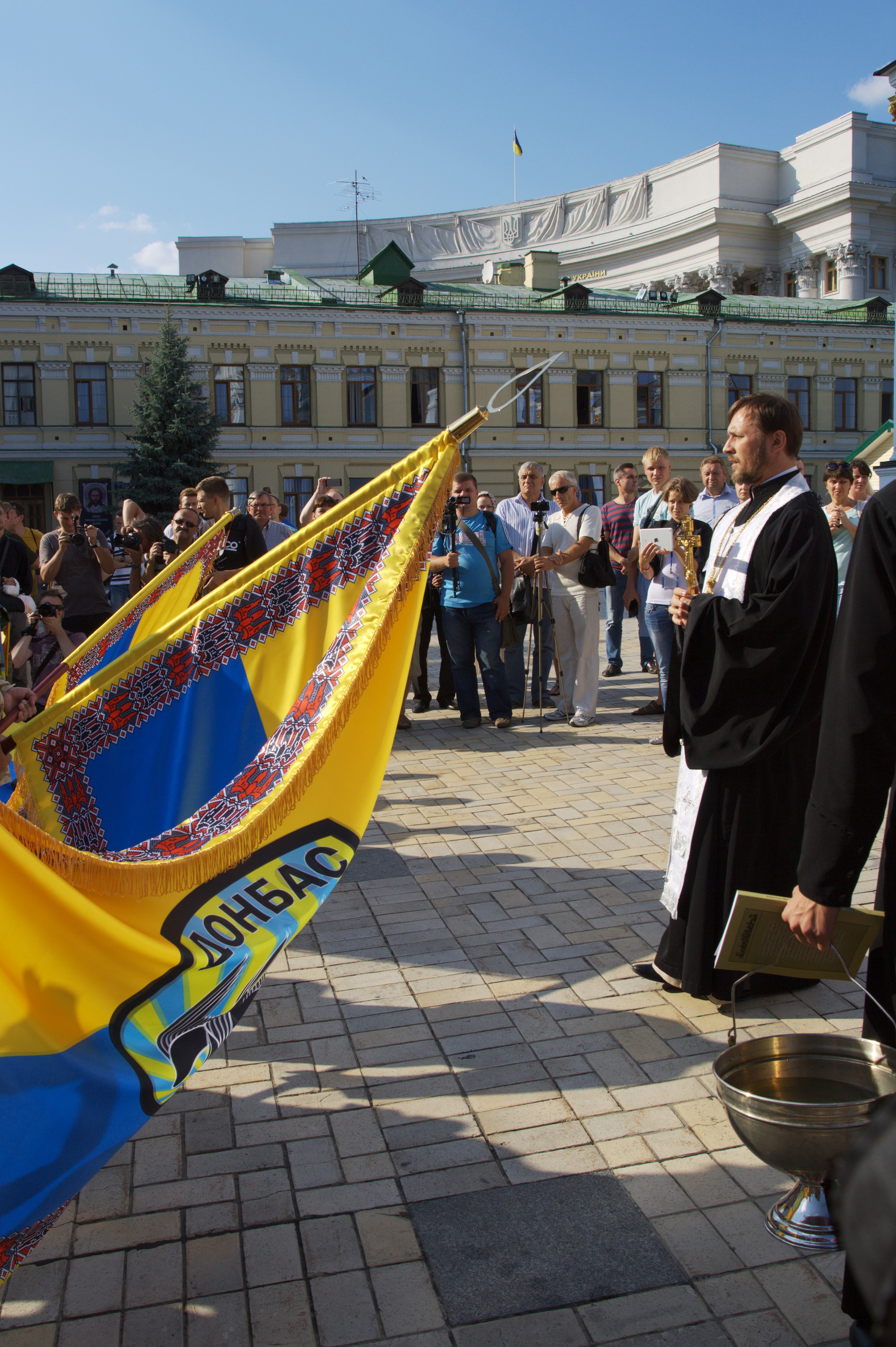 Donbass Battalion flags consecration in St. Michael's Golden-Domed Monastery.